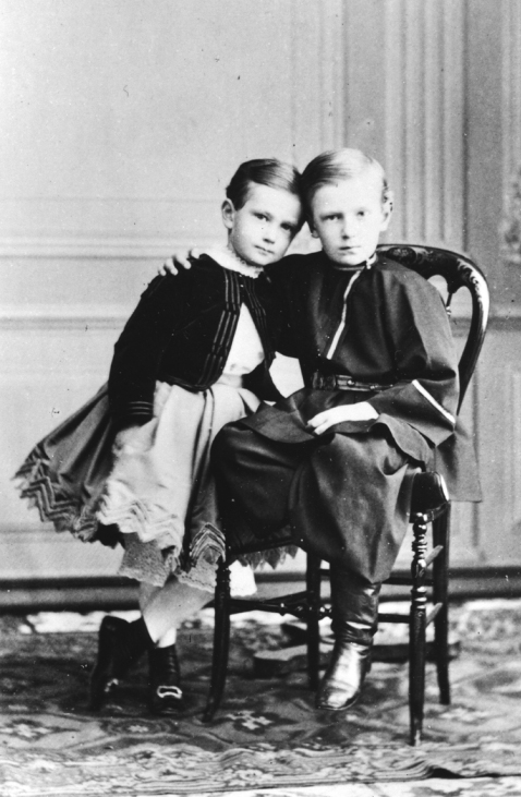 Grand Dukes Paul and Sergei Alexandrovich of Russia